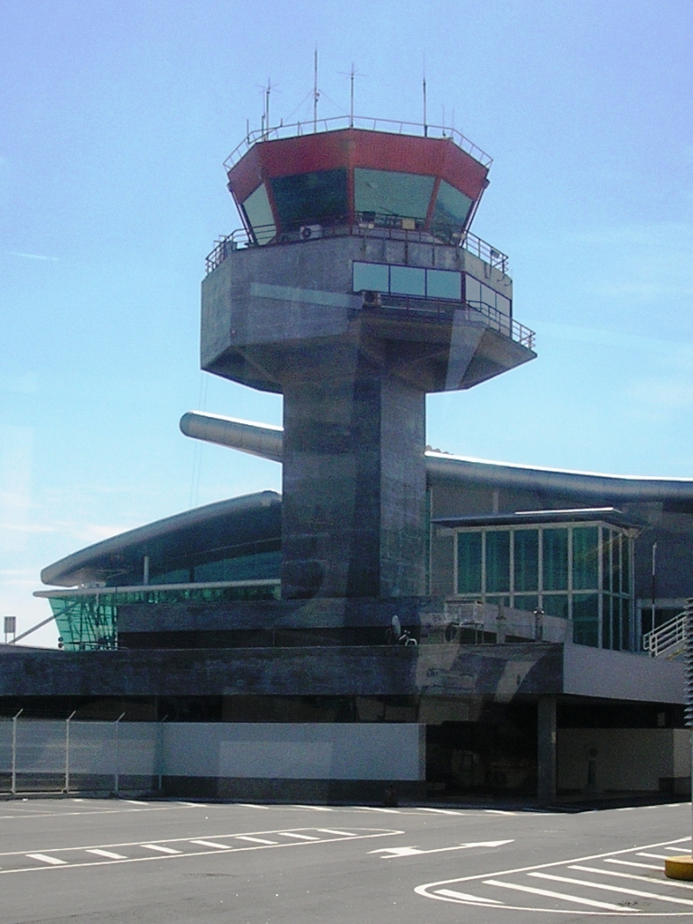 International airport in Porto, Portugal